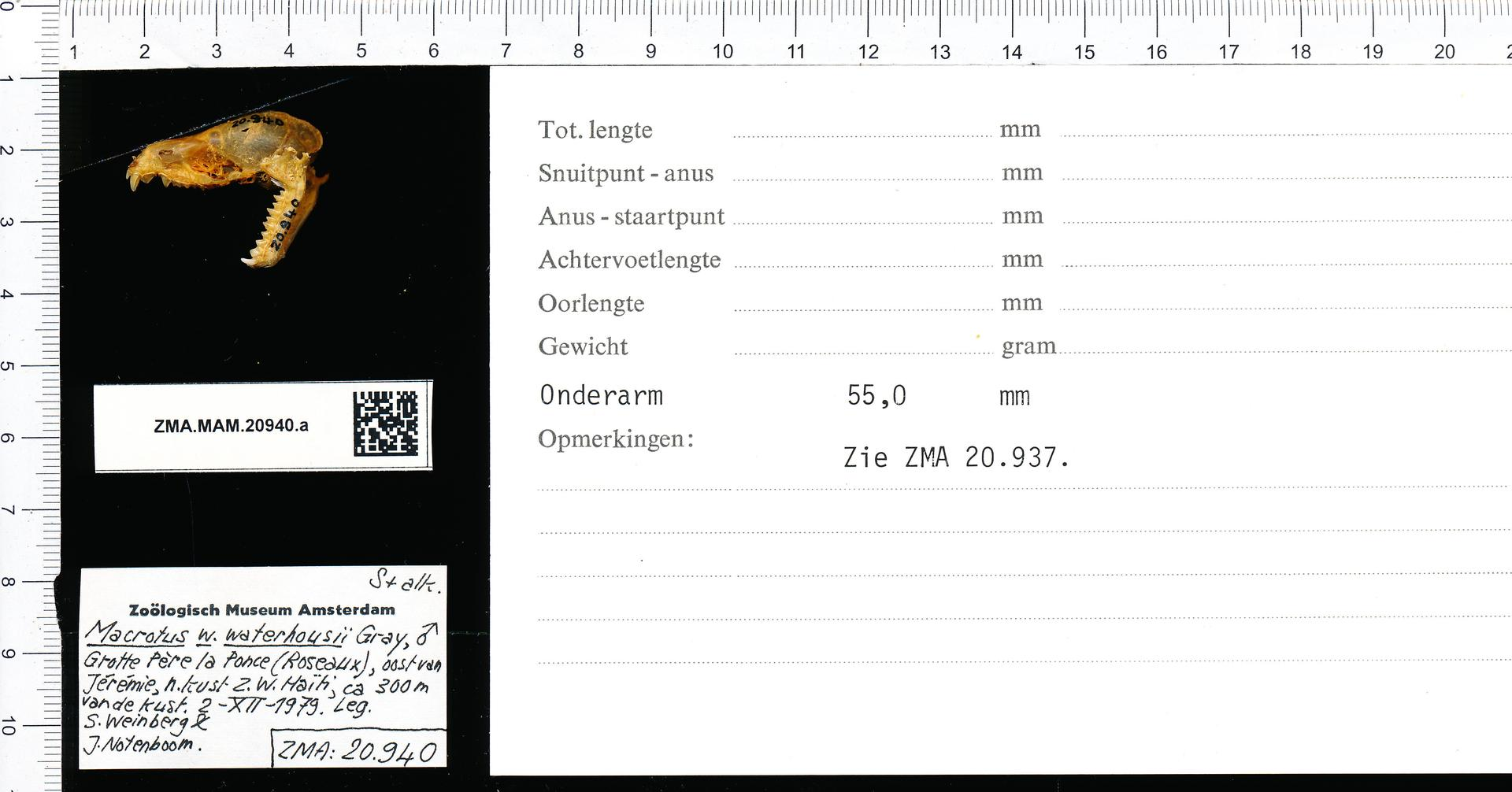 Macrotus waterhousii